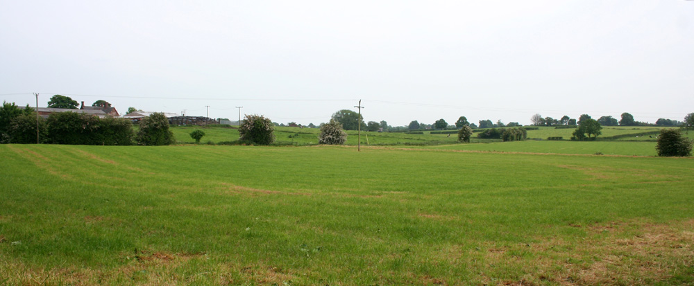 Farmland near Brindley Lea Hall, Brindley, Cheshire